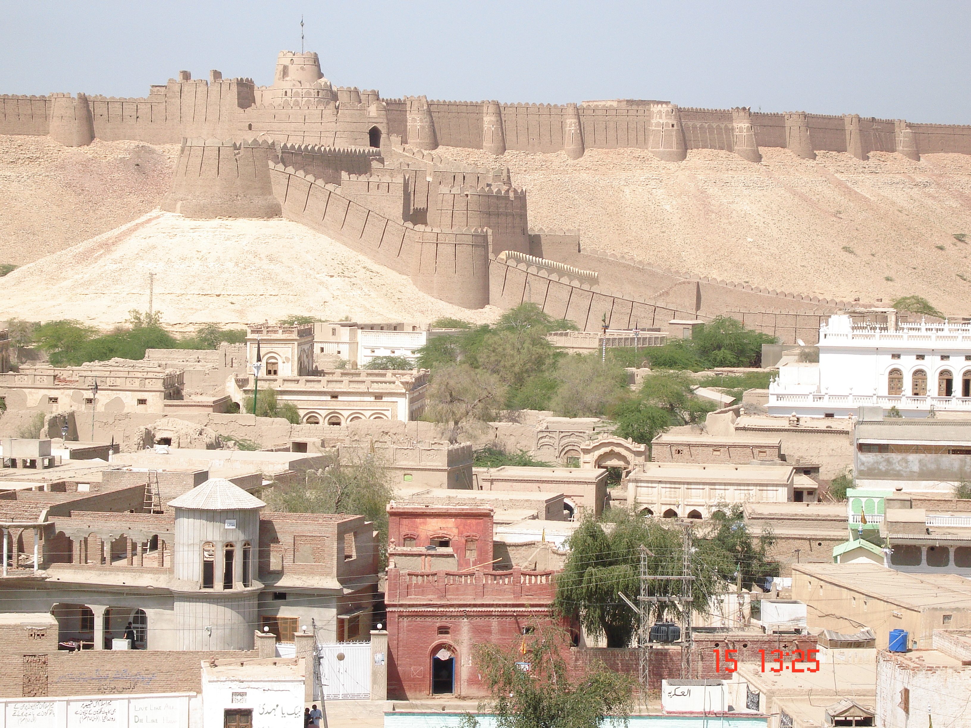 The view of Kot Diji from Sheesh Mahal of Mirs This is a photo of a monument in Pakistan identified as the SD-37